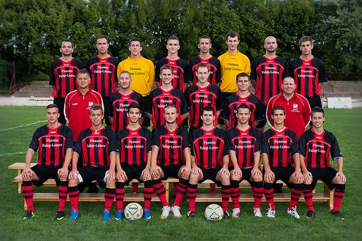 Football team of FC Dorog nowaday